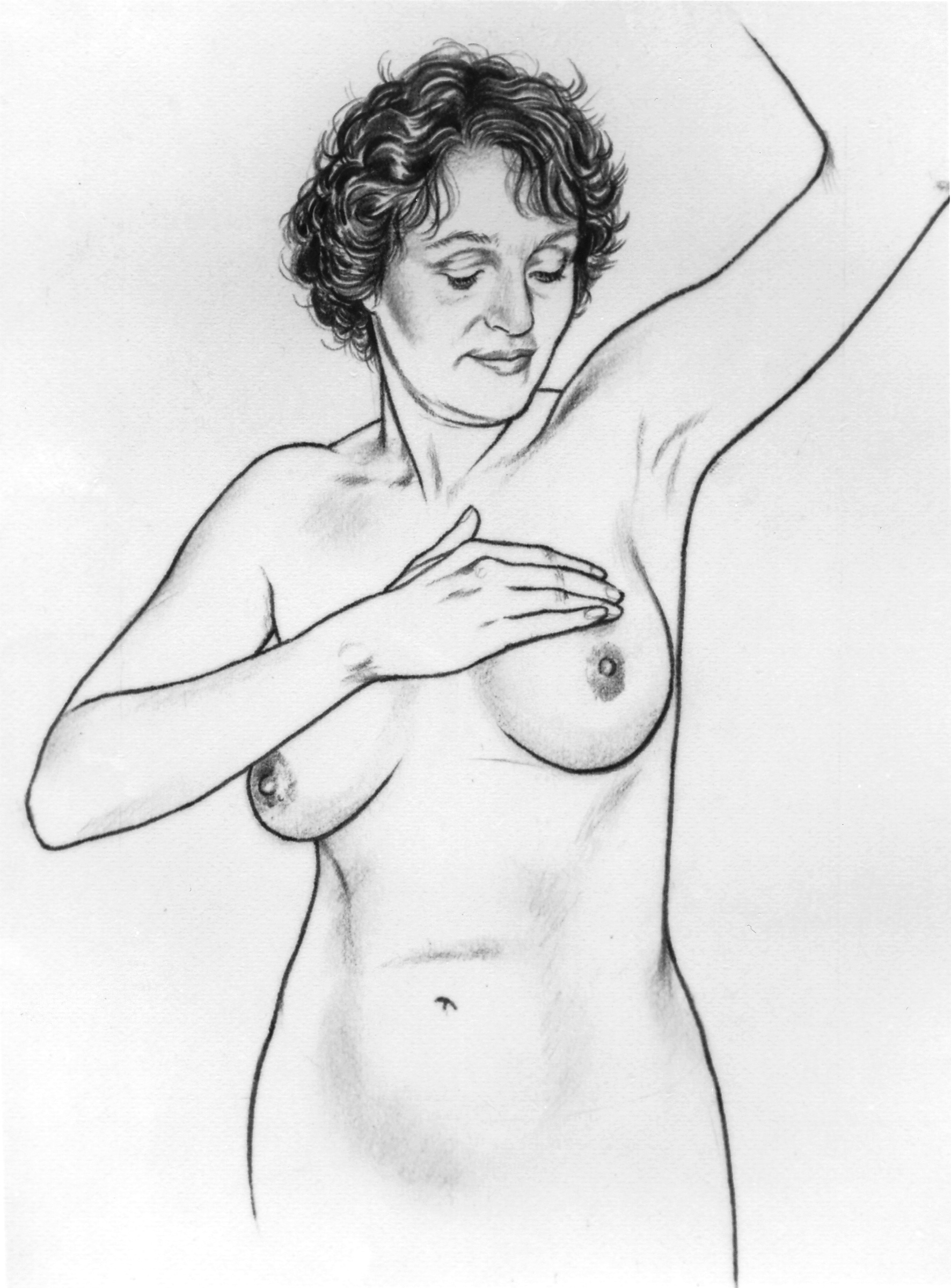 Title Breast Self-Exam Illustration (Series of 6) Description This is the fourth image in a series of six illustrations showing how to do breast self examination (BSE). Image shows a nude woman with right hand on her left breast. See other images: Topics/Categories Cancer Types -- Breast Cancer Historical -- Graphics Test or Procedure -- Physical Exam Type B&W, Medical Illustration Source National Cancer Institute